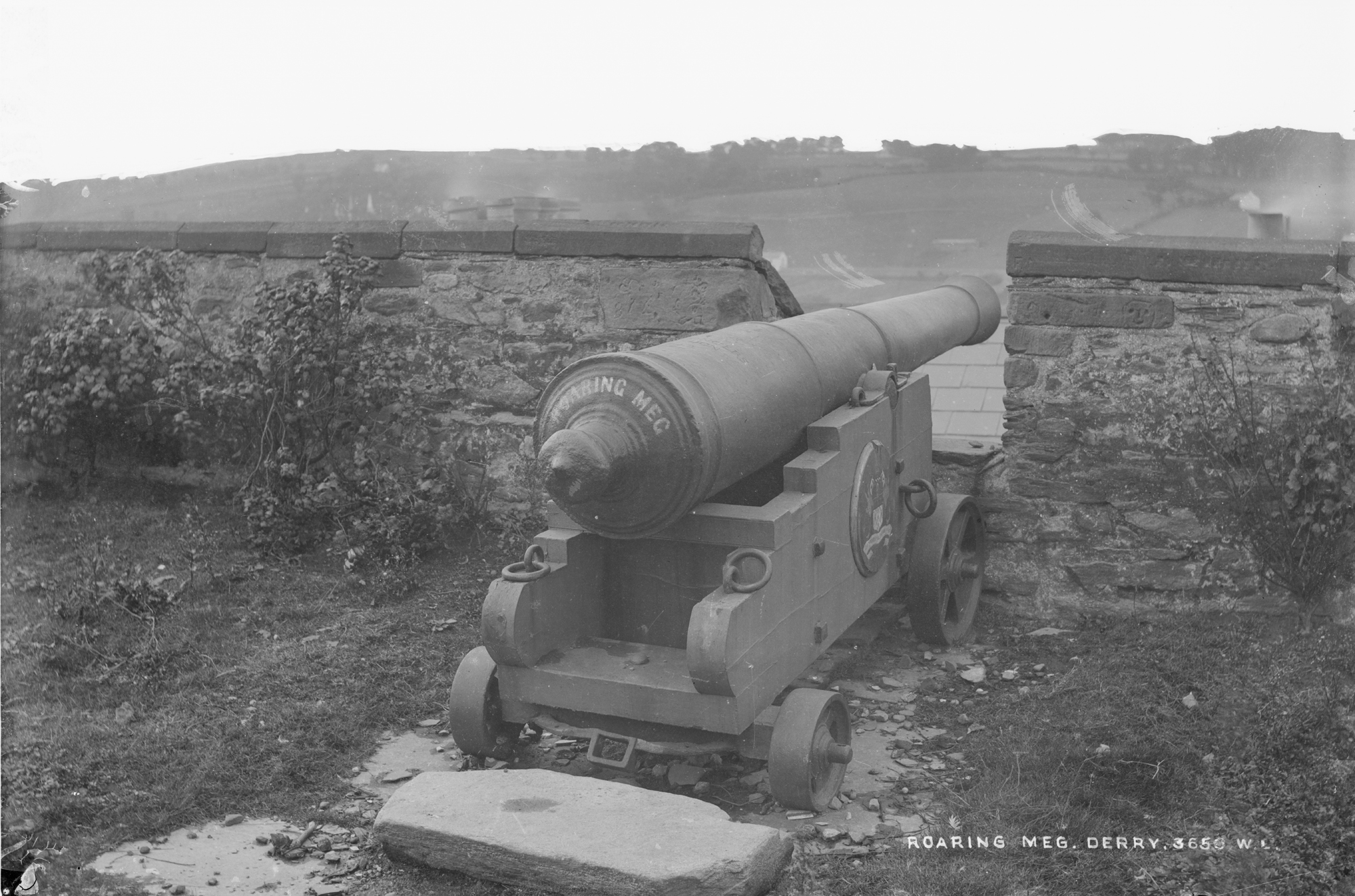 Thanks to [/photos/129555378@N07/ sharon.corbet] for the following information on "Roaring Meg". Roaring Meg, named because of its ferocious sound in battle, was used during the Siege of Derry. One account of the famous cannon from the time of the Siege in the Seventeenth Century said: "The noise of its discharge was more terrifying than the contents of the charge to the enemy." The barrel of the cannon bears the inscription 'Fishmongers London 1642,' marking the fact that the cannon was one of 24 cannon sent to the Derry by the City of London and the London Companies after the 1641 siege. Photographer: Robert French Collection: The Lawrence Photograph Collection Date: between ca. 1865-1914 NLI Ref: L-_CAB_03659 You can also view this image, and many thousands of others, on the NLI’s catalogue at